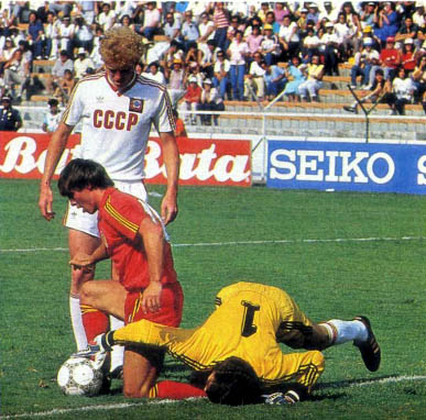 Oleg Kuznetzov (stood), Nico Claesen and goalkeeper Rinat Dasayev, during the Belgium v USSR match at the WC.